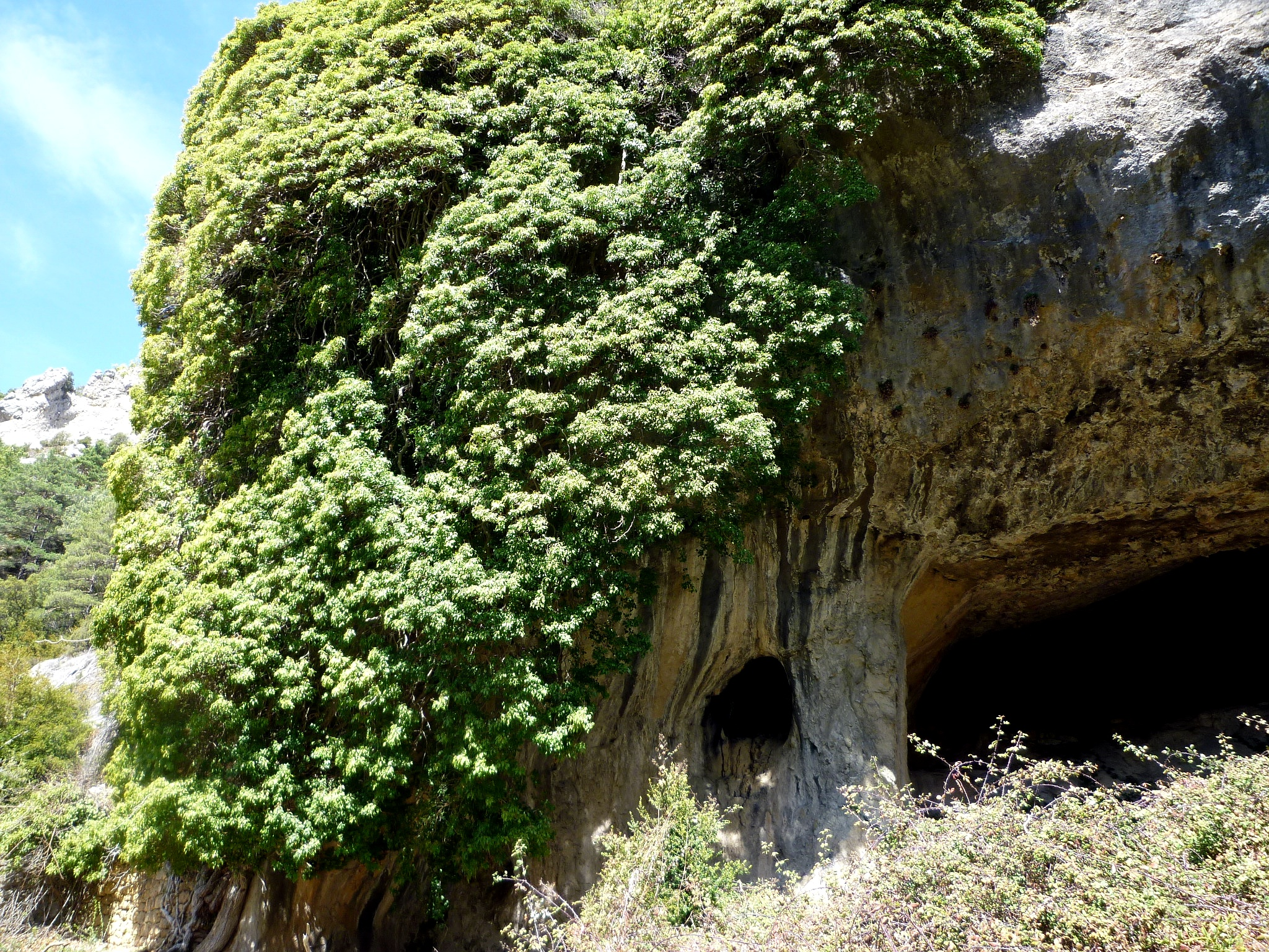 Hedera helix. In la Coma i la Pedra (Solsonès - Catalunya). To 1.280 m. altitude